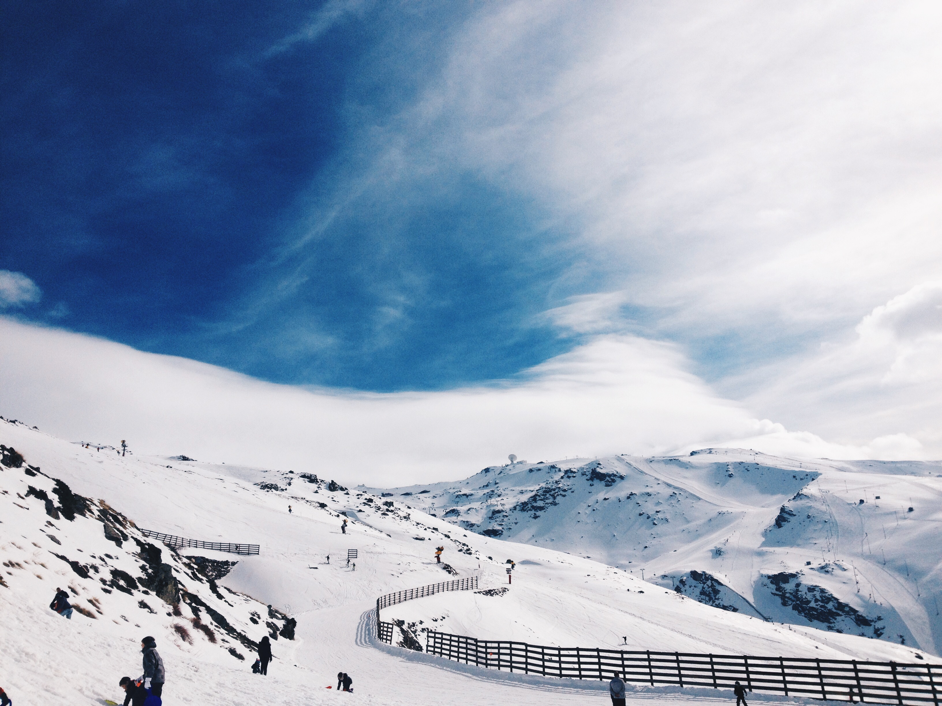 People skiing in Sierra Nevada Natural Park. This is a photography of a Special Area of Conservation in Spain with the ID: ES6140004. Natura2000 entry, EEA entry